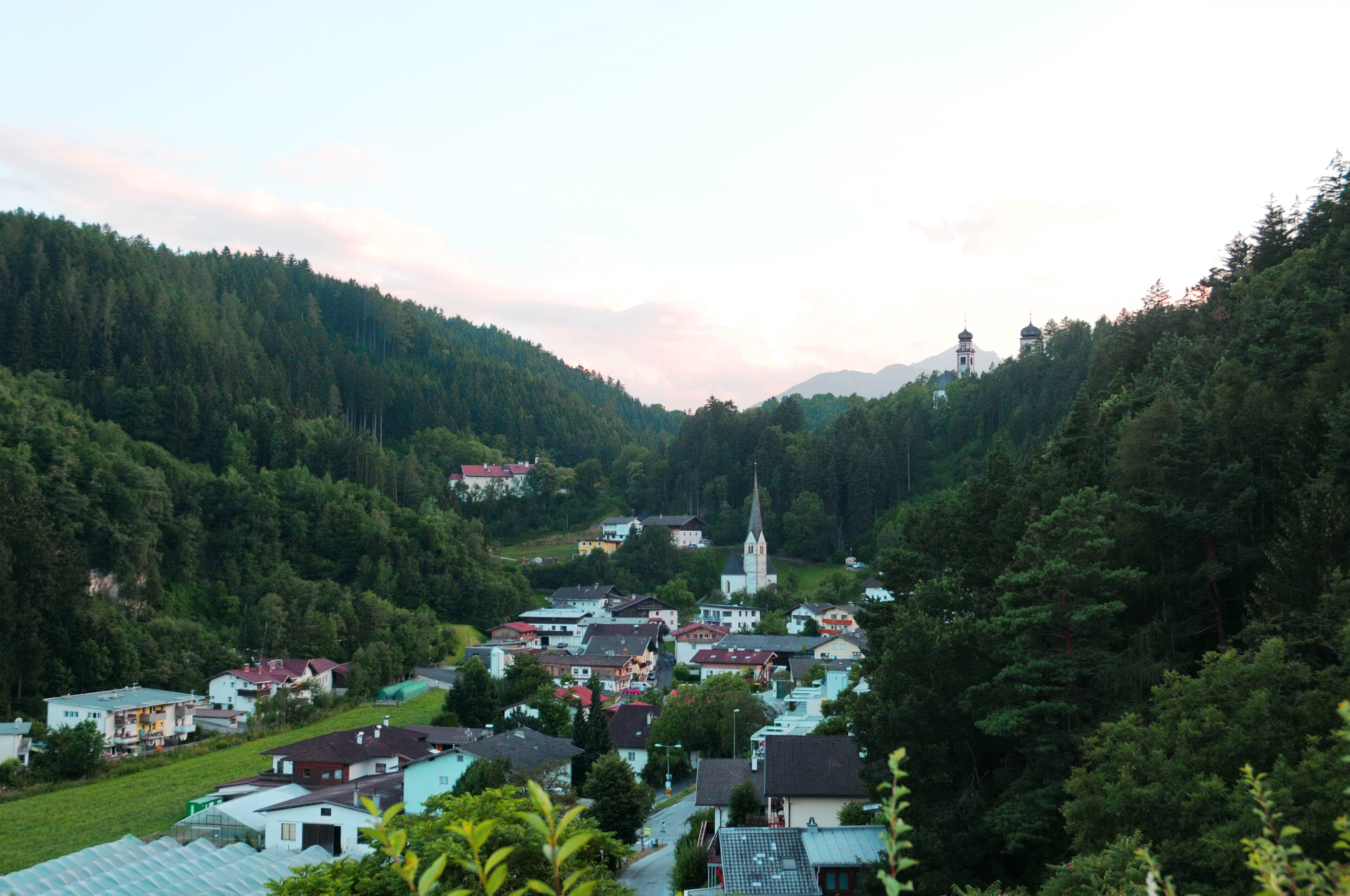 Village Ampass